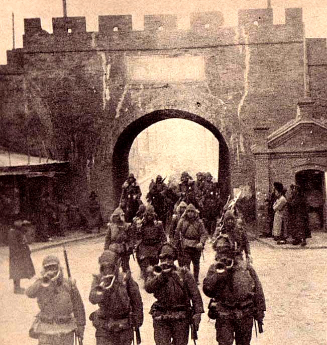 Japanese troops (2nd Division) entering Tsitsihar